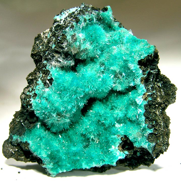 Aurichalcite Locality: 79 Mine (79th Mine; Seventy-Nine Mine; Seventy-Nine property; McHur prospect), Chilito, Hayden area, Banner District, Dripping Spring Mts, Gila County, Arizona, USA (Locality at ) Sparkling balls of needle-like crystals, of a gorgeous blue-green hue, against a contrasting matrix around the rim - from the very desirable old locality of the 79 Mine. 3.9 x 4.3 x 2.4 cm